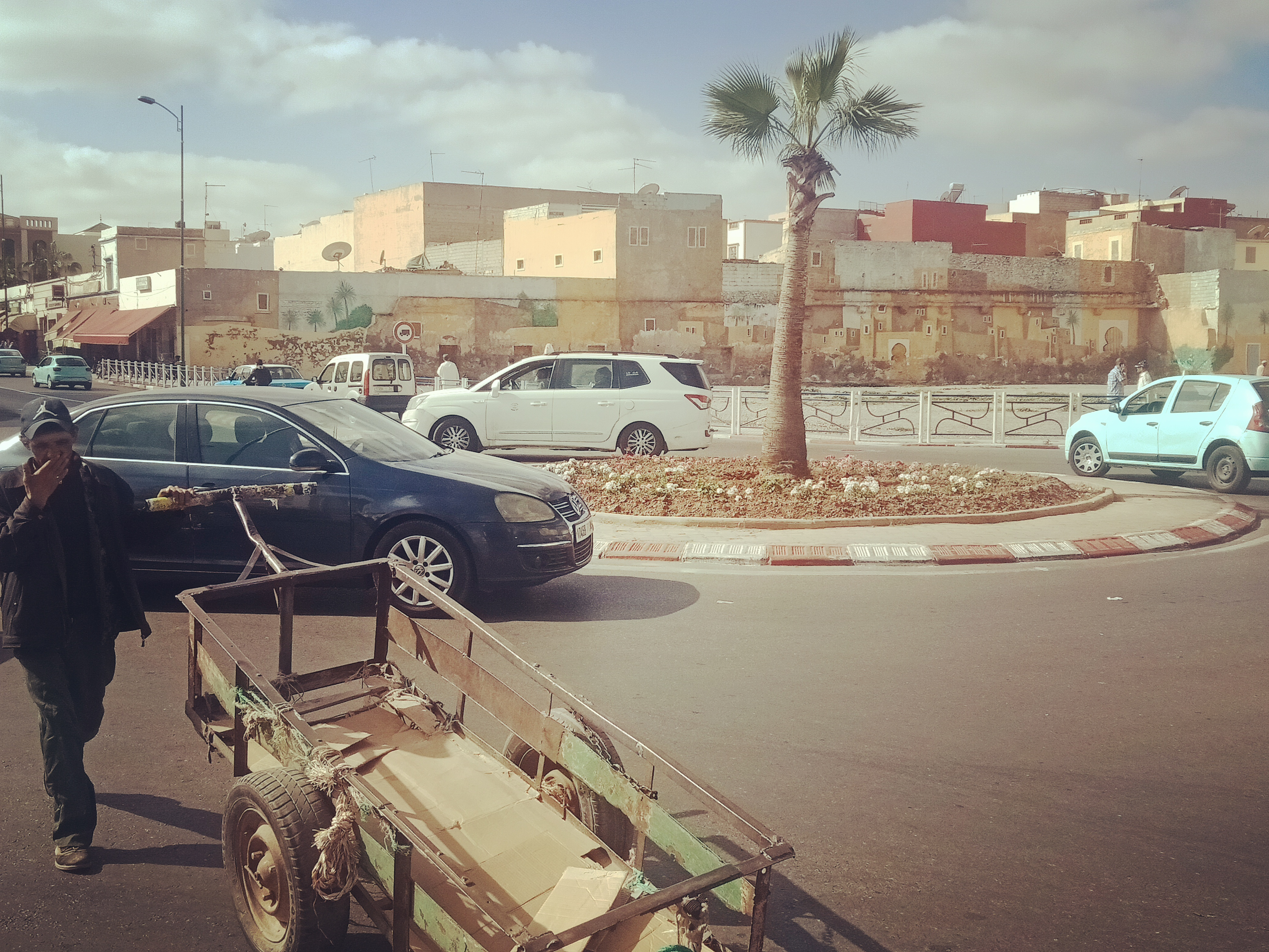 This is an image with the theme "Africa on the Move or Transport" from: Morocco